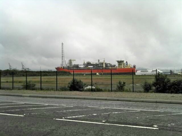 SeaRose FPSO coming into Belfast Port in Ireland on 06/06/2012